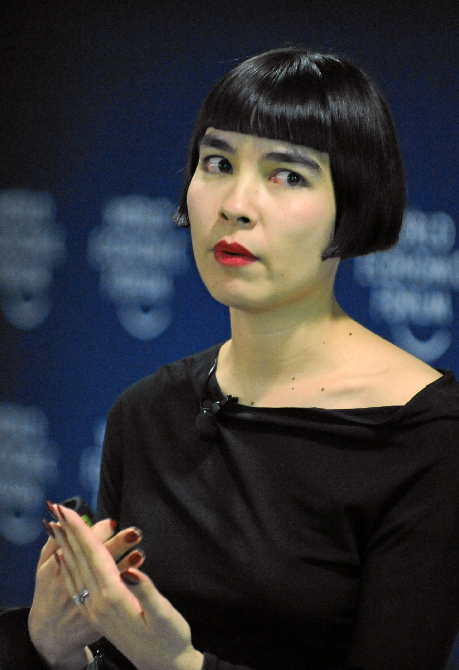 DAVOS/SWITZERLAND, 26JAN11 - Drue Kataoka, Artist, Japan speaks during the session 'Building Bridges with Brush Strokes' at the Annual Meeting 2011 of the World Economic Forum in Davos, Switzerland, January 26, 2011. Copyright by World Economic Forum by Michael Wuertenberg